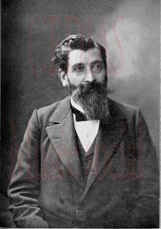 French socialist.